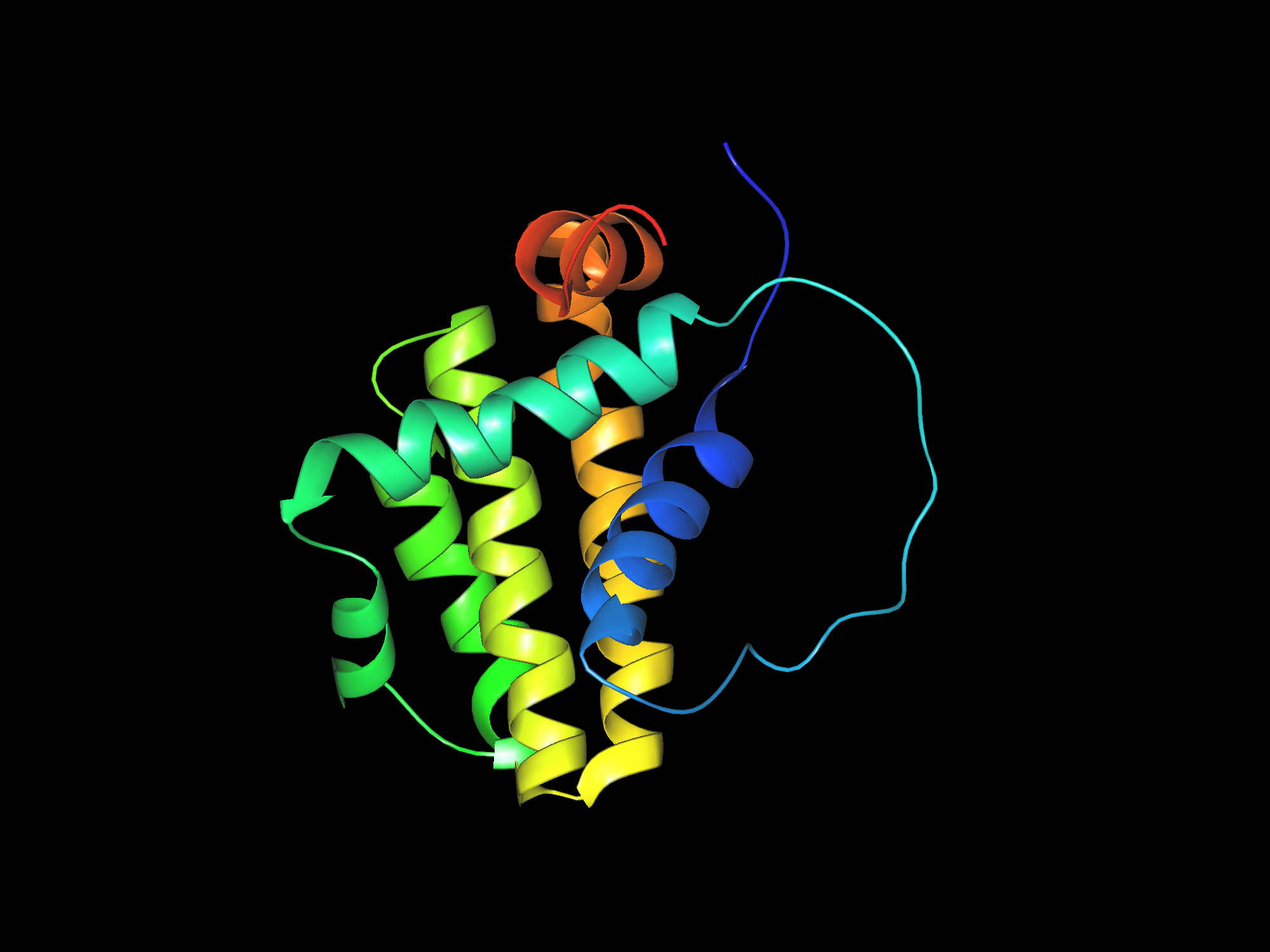 Structure of Bcl-2 protein